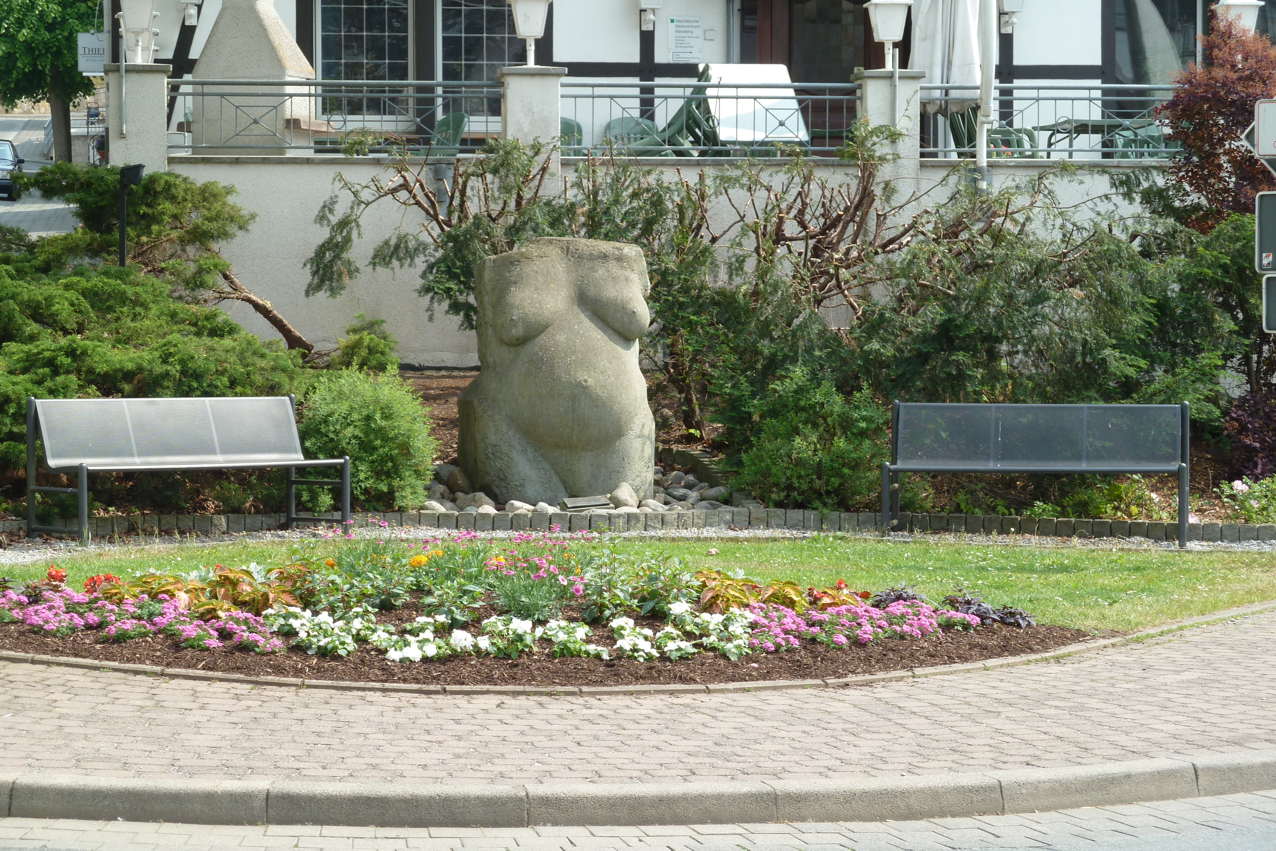 "Fruchtbare Erde", sculpture in Marsberg Germany, by Bernhard Mätthäs.